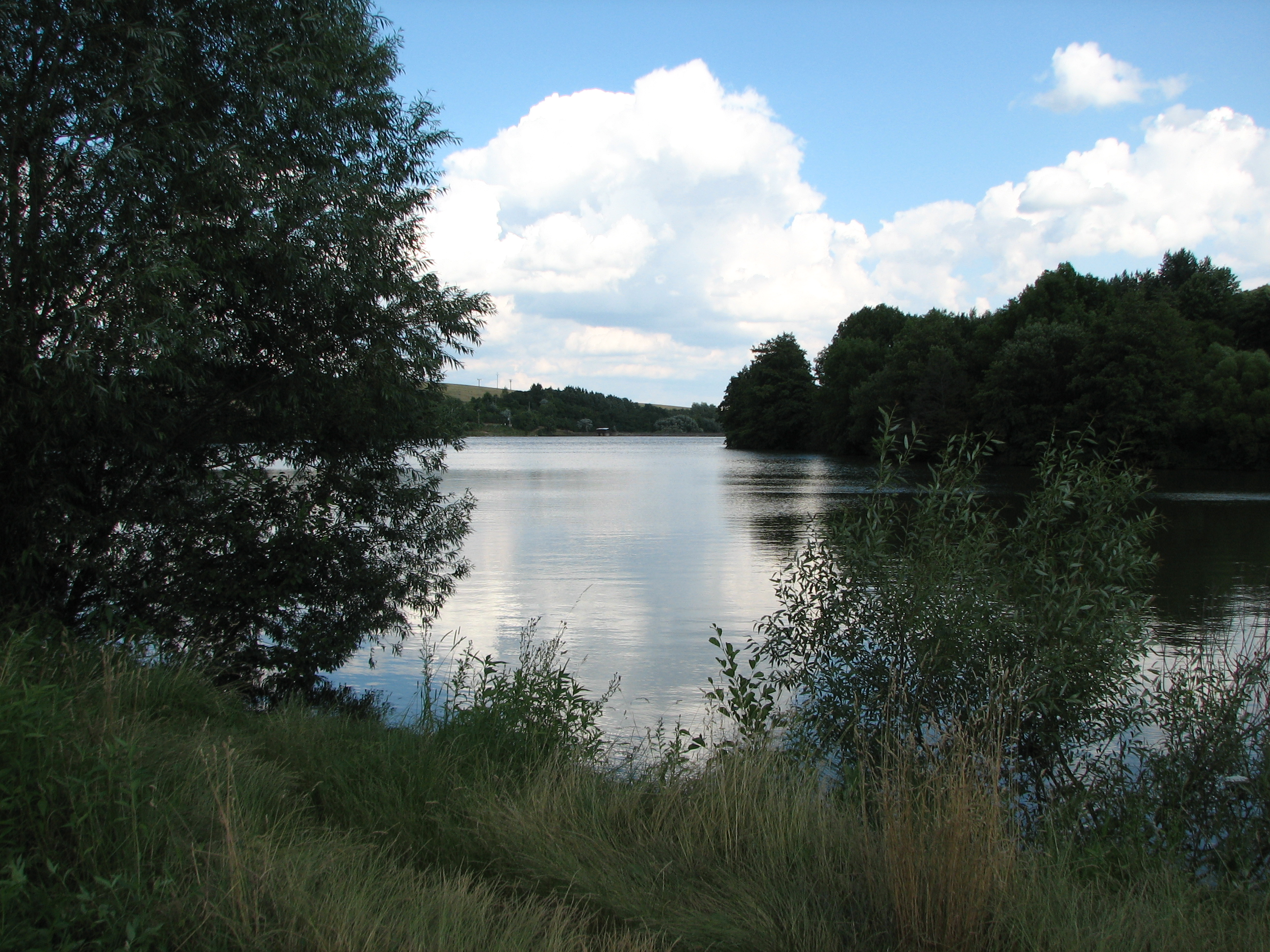 Smraďavka reservoir near Buchlovice, Uherské Hradiště district, Czech Republic